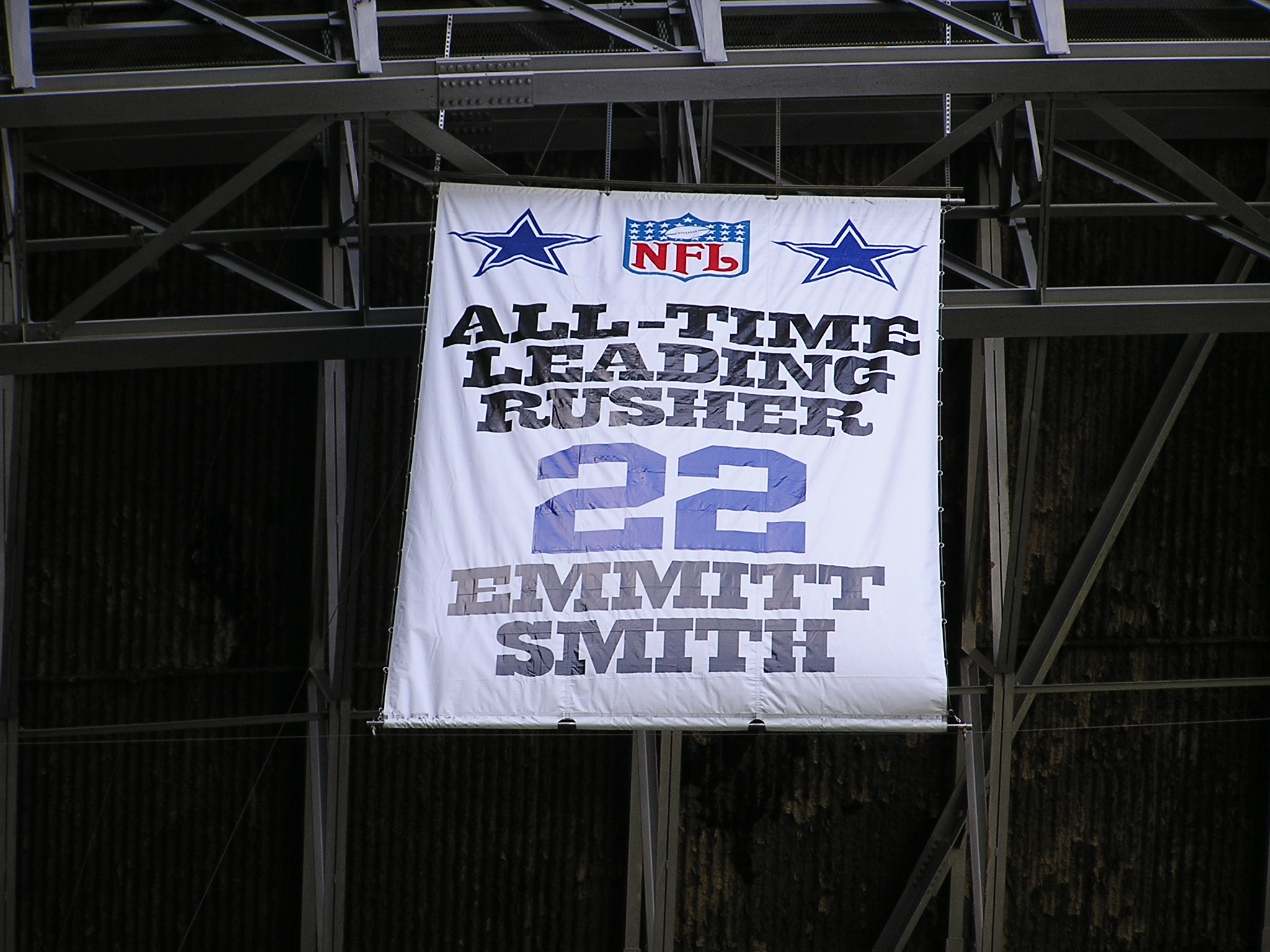 Emmitt Smith banner